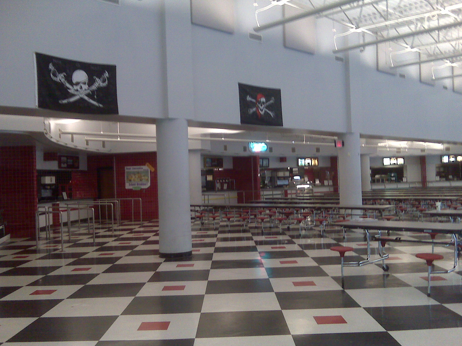 The cafeteria (Pirate Champs' Cafe) at Port Charlotte High School